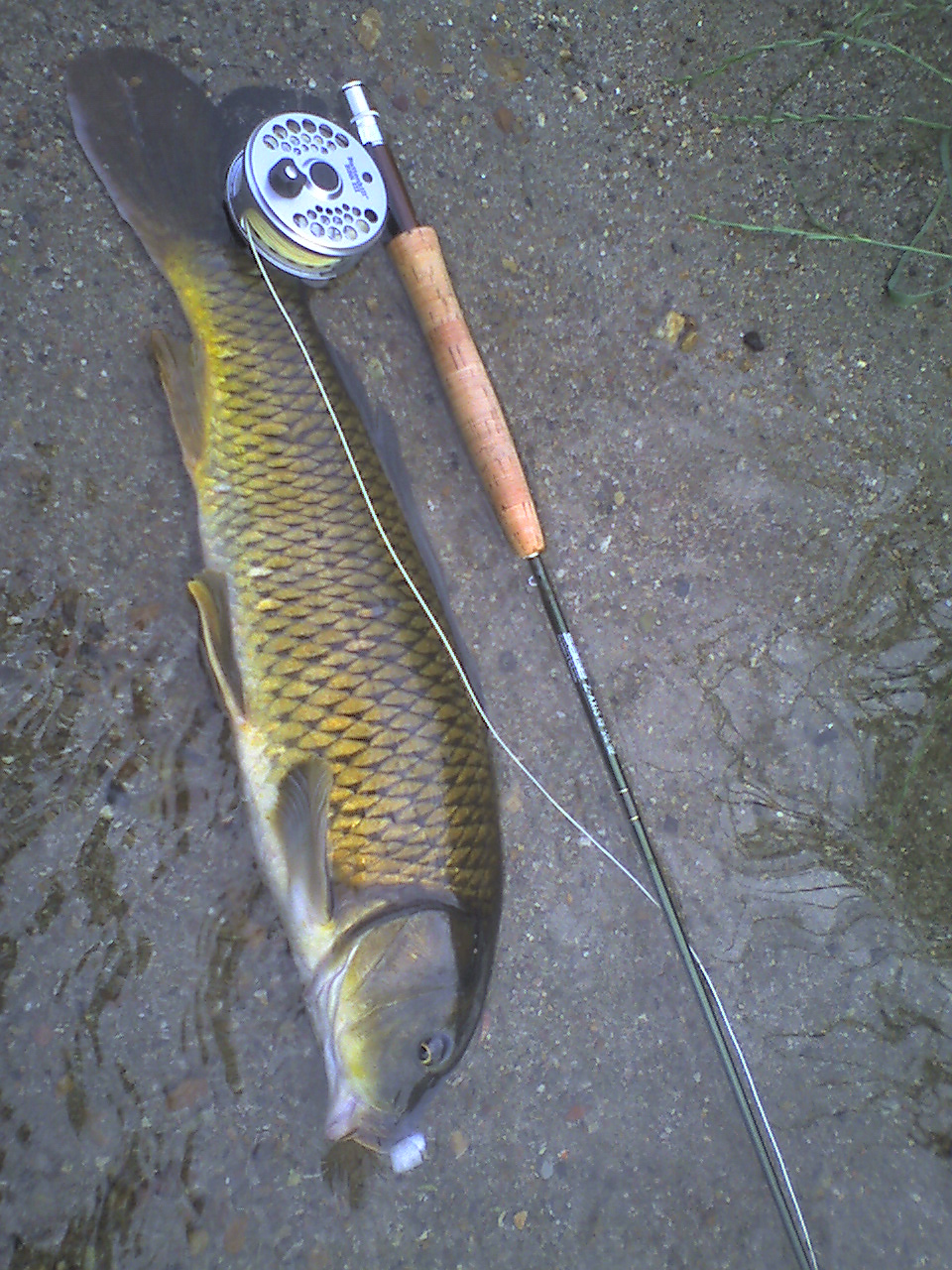 I caught this fish with a breadlike fly.